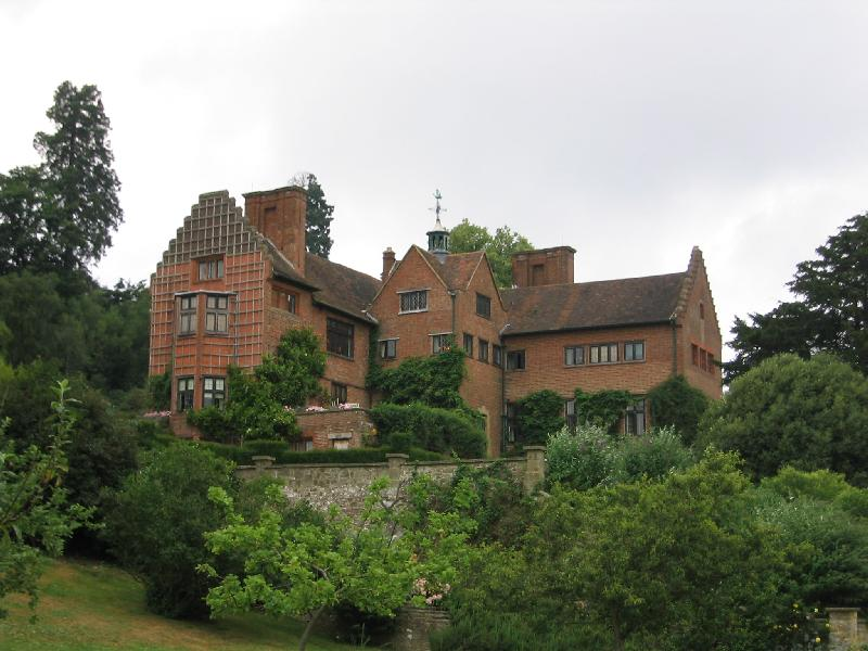 Chartwell